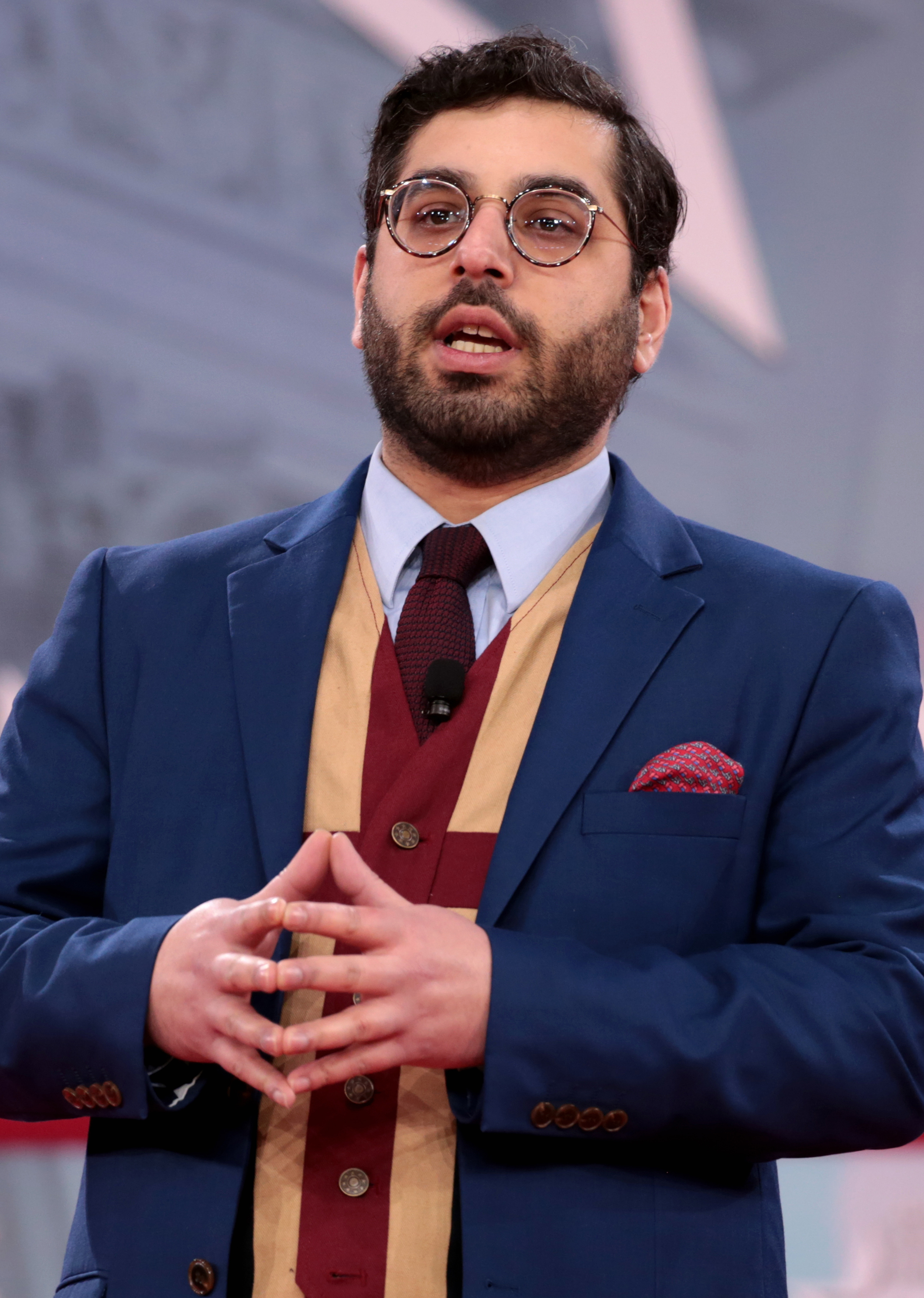 Raheem Kassam speaking at the 2018 CPAC in National Harbor, Maryland.